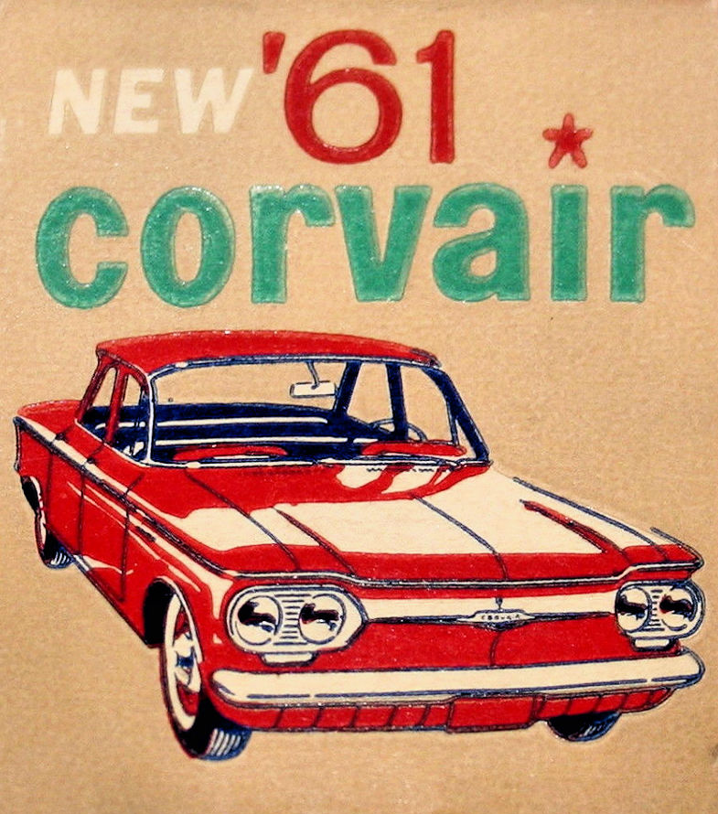 Ed Newman Chevrolet - Matchcover